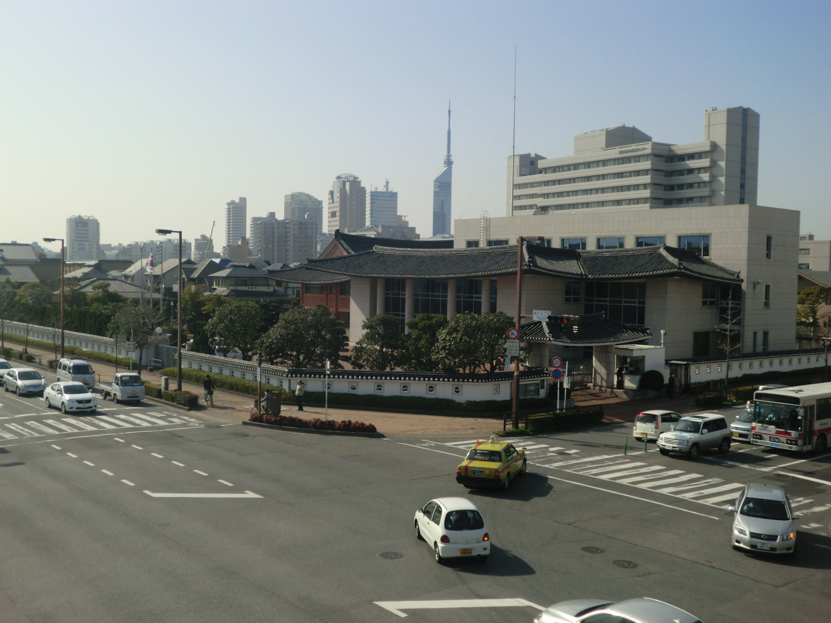 Consulate-general of Repubilc of Korea in Fukuoka at Jigyohama area in Fukuoka,Fukuoka,Japan.